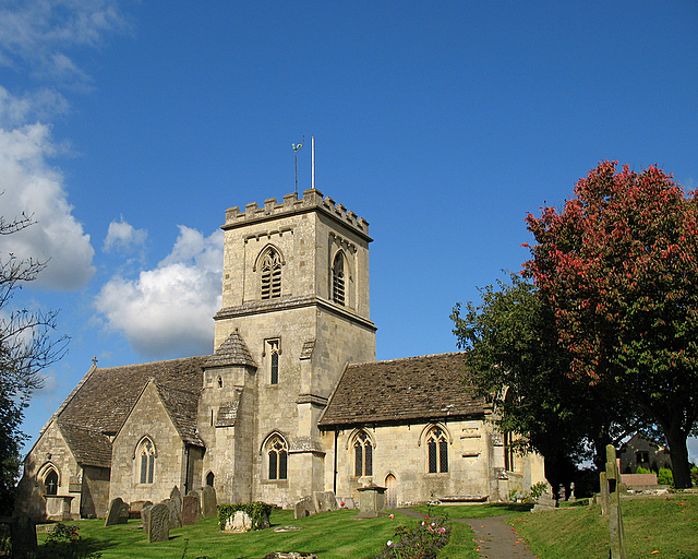 St George's parish church, Brockworth, near Tewkesbury, Gloucestershire, seen from the south